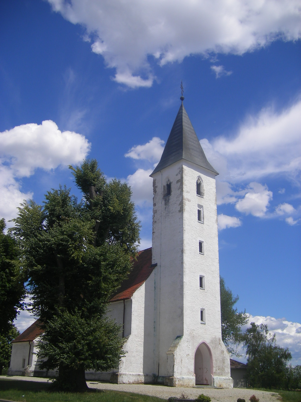 Martjanci - Mártonhely (Moravske Toplice municipality)